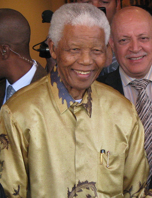 Nelson Mandela in Johannesburg, Gauteng, on 13 May 2008